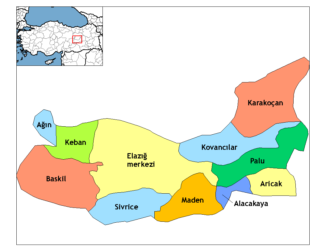 Map of the districts of Elazığ province in Turkey. Created by Rarelibra 19:53, 1 December 2006 (UTC) for public domain use, using MapInfo Professional v8.5 and various mapping resources. Edited by One Homo Sapiens Corrected text where İ,Ş,ı,ğ,or ş occurs in name. Source: [statoids-com]. New district Ağın added, additional source: Elazığ Valiliği [elazig-gov-tr]. Increased font size and enhanced color differences among adjacent districts.